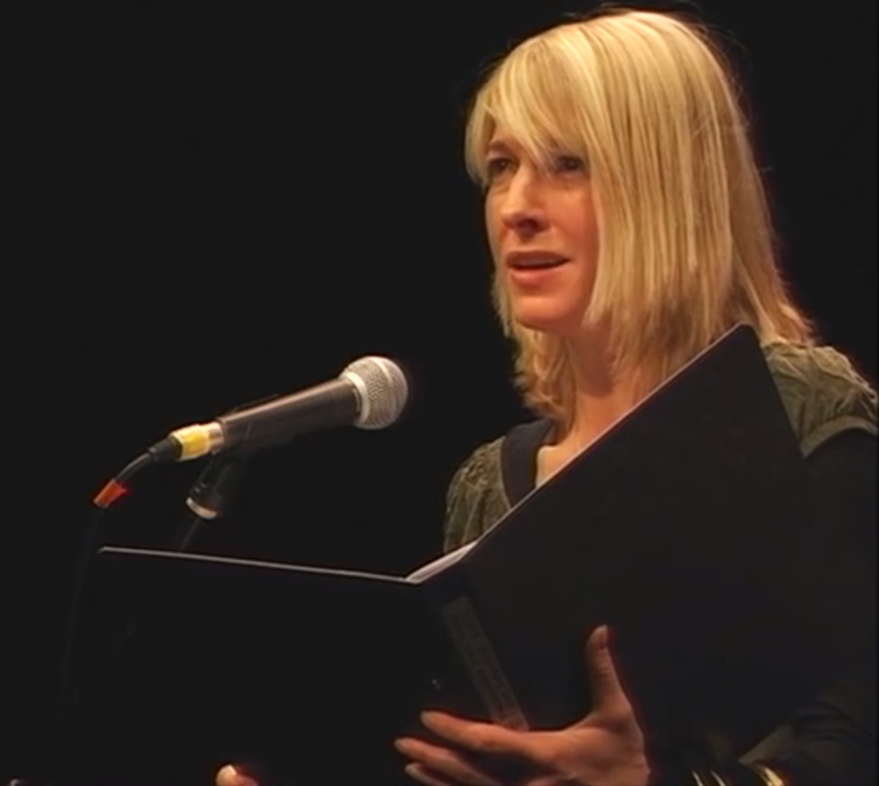 English actress Jemma Redgrave reading Poems from Guantánamo: The Detainees Speak (poems written by detainees at Guantanamo Bay, Cuba) at the Center for Constitutional Rights in New York City , on December 9, 2007. Filmed by the Culture Project, New York City. Published on Vimeo September 9, 2011.